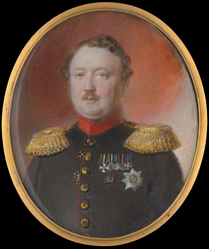 Buturlin Nikolay Alexandrovich